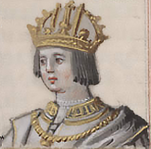 Alfonso VII of Castile